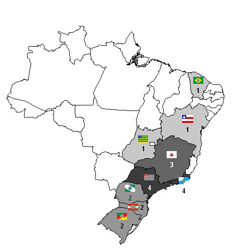 2011 serie A map